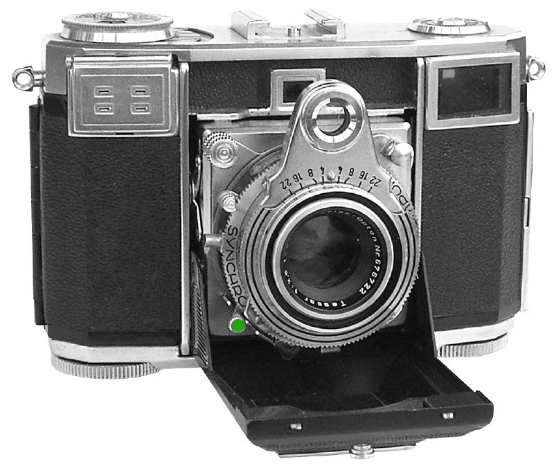 Zeiss Ikon Contessa, produced betweeen 1950 and 1955.